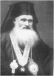 Meletius of Sofia